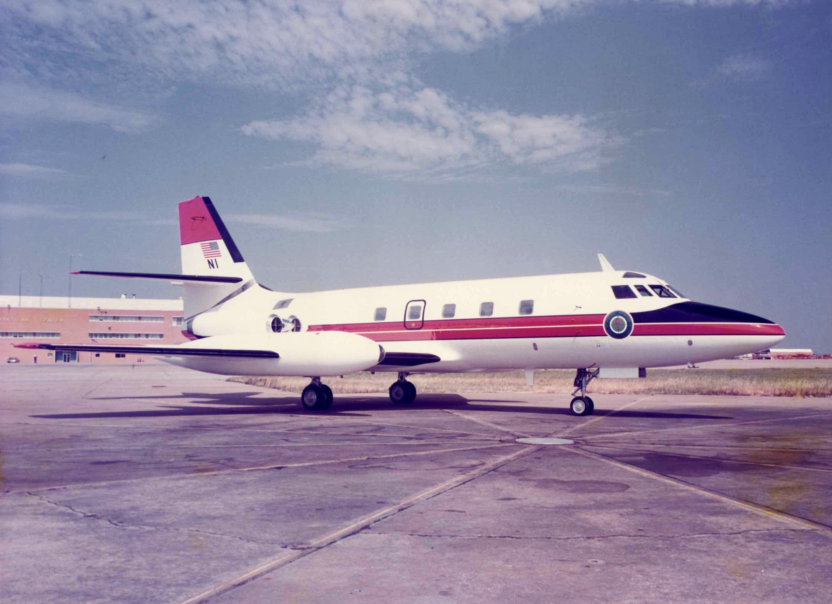 United States, Federal Aviation Administration Lockheed JetStar N1.